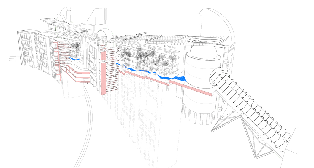 Sequential images for Douglas Jarvie Clelland Wikipedia article